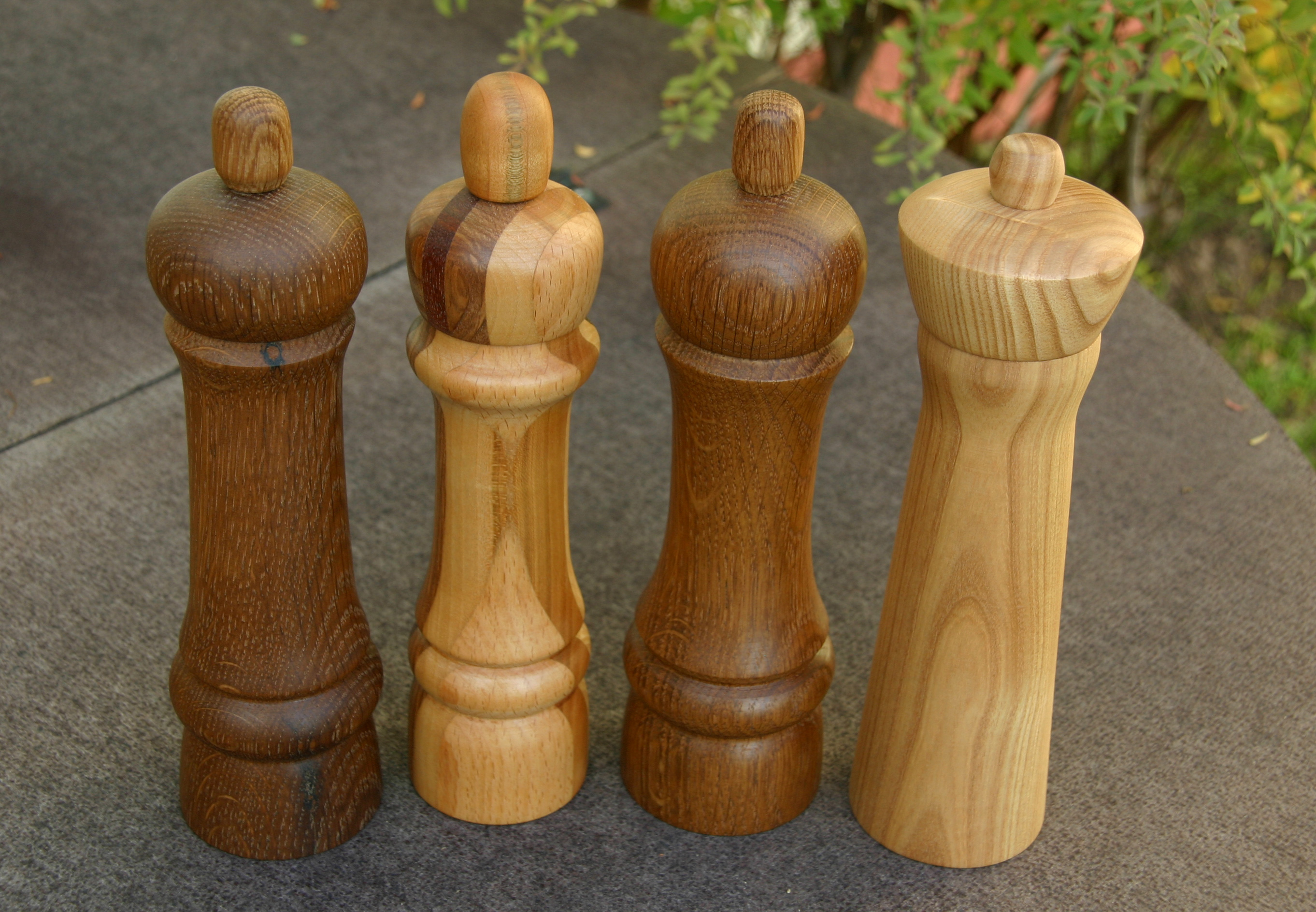 Woodturned peppermills. Work of Theo Eichmann, Rodalben, Germany.